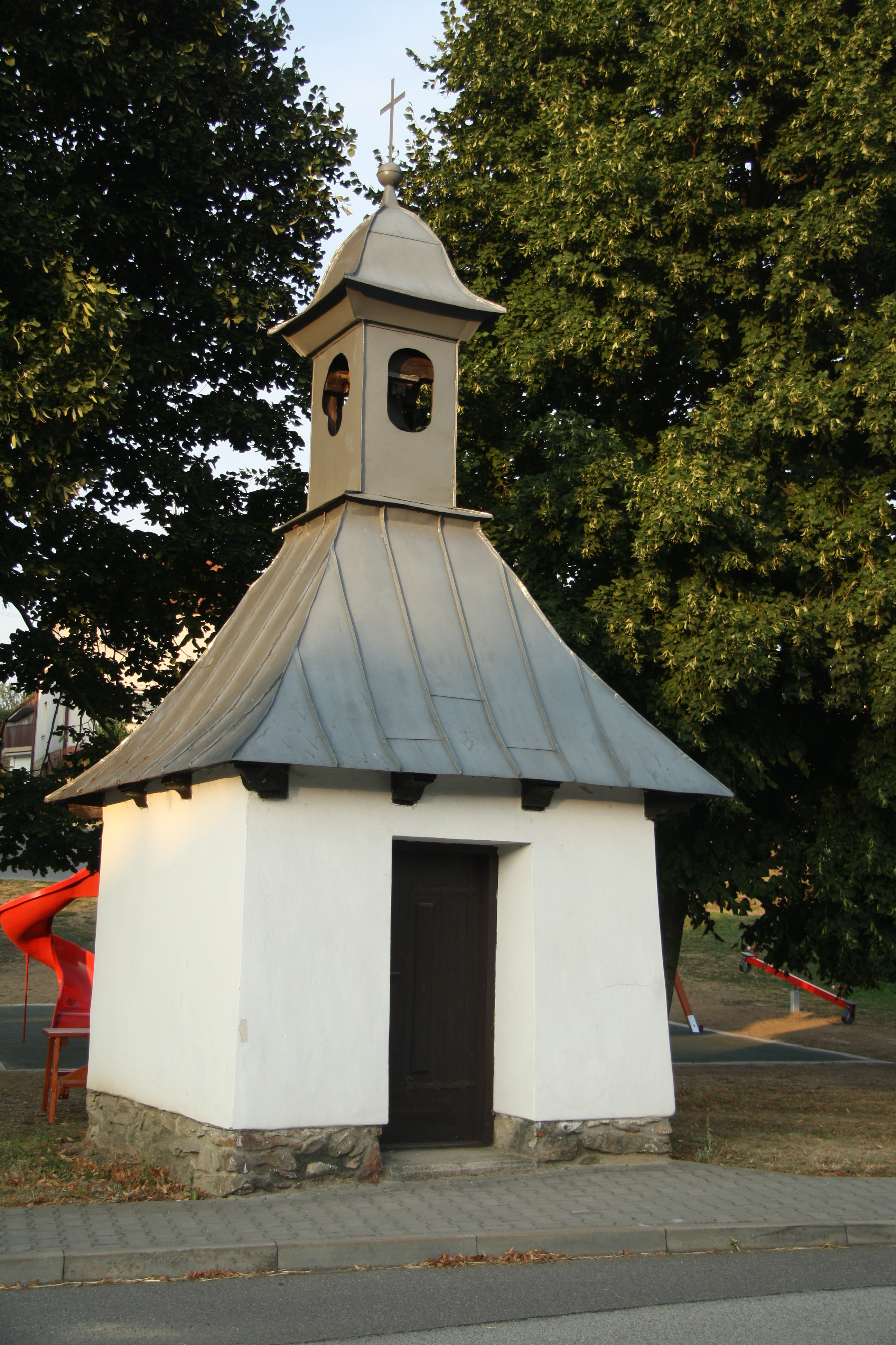 Bell tower in Martinice, Žďár nad Sázavou District.